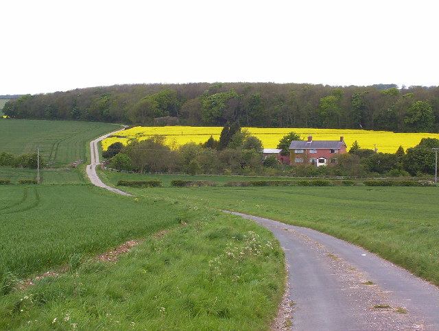 Enthorpe Railway Station (Ex) between Goodmanham and Middleton on the Wolds, East Riding of Yorkshire, England.The site of the old Enthorpe Railway Station. The road is also the route of the Kiplingcotes horse race held every March. It's the oldest race in the UK (I think?)